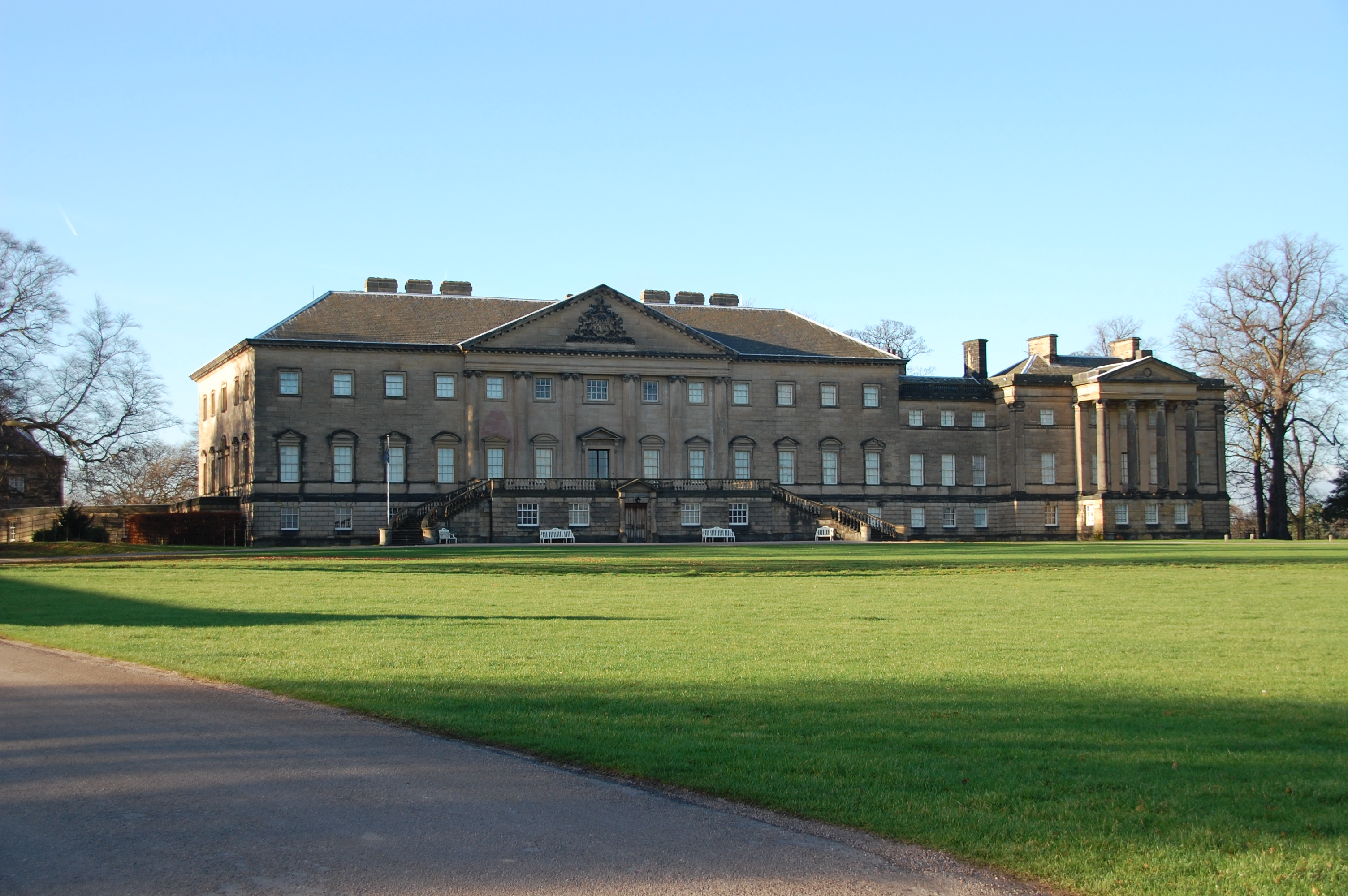 The east frontage of Nostell Priory, Crofton, Wakefield, West Yorkshire, England.